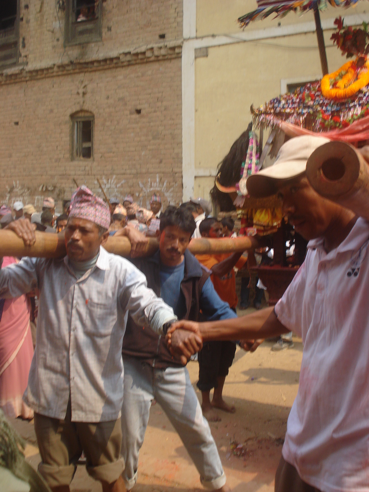 northern part of kathmandu